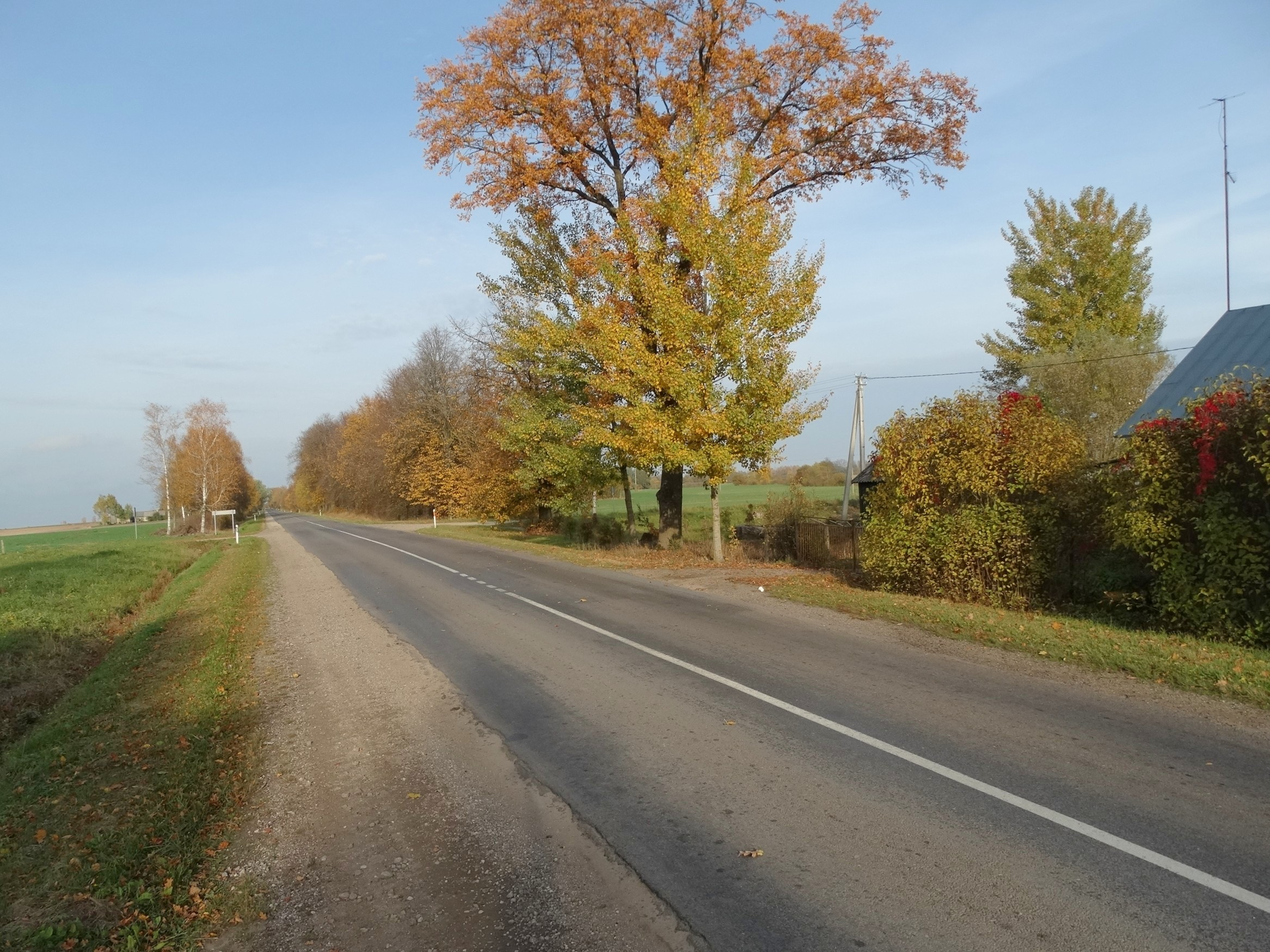 Regional road 138 near Kudirkos Naumiestis, Lithuania